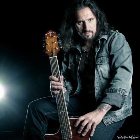 Gyorgy Filip is a popular and famous rock musician who was a talented football player of Dorog between 1977-87 (1977-83 player of youth group).